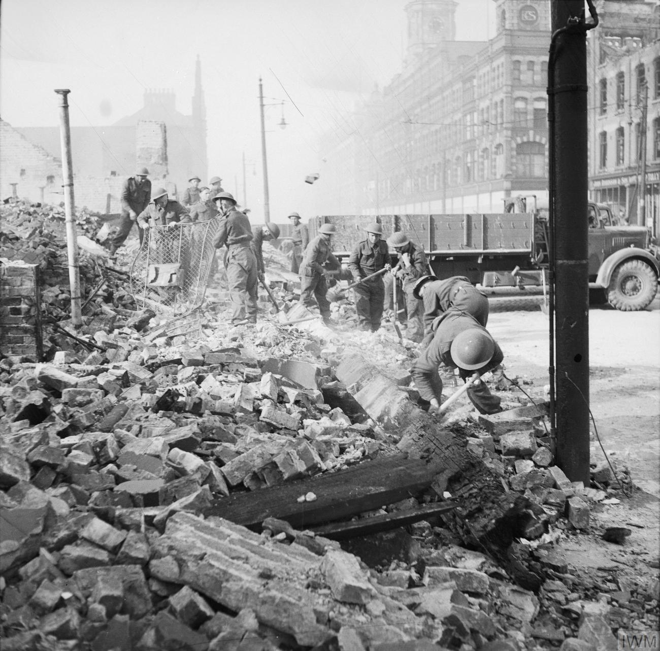 The British Army in the United Kingdom 1939-1945 Royal Welch Fusiliers assist in clearing bomb damage in Belfast, Northern Ireland, 7 May 1941.